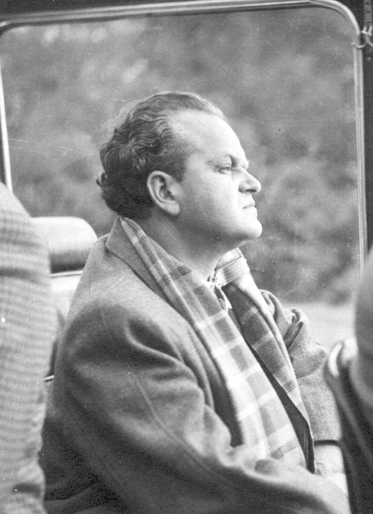 Picture of German composer Heinrich Konietzny, 1954